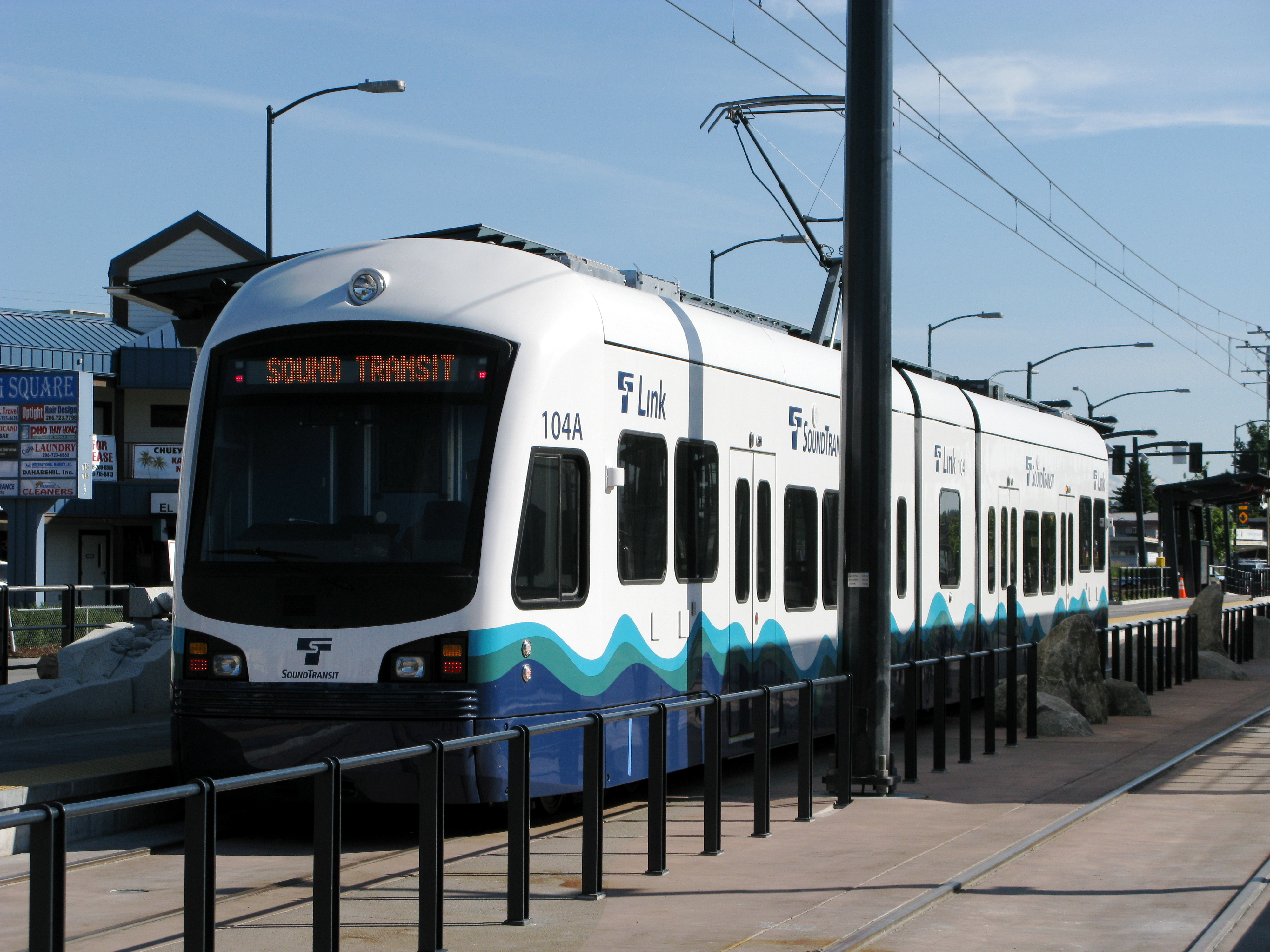 One rail car is 30 meters long and can carry 200 passengers. Link station platforms are 120 meters long and will be able to accommodate 4-car trains carrying 800 passengers if the capacity is needed.